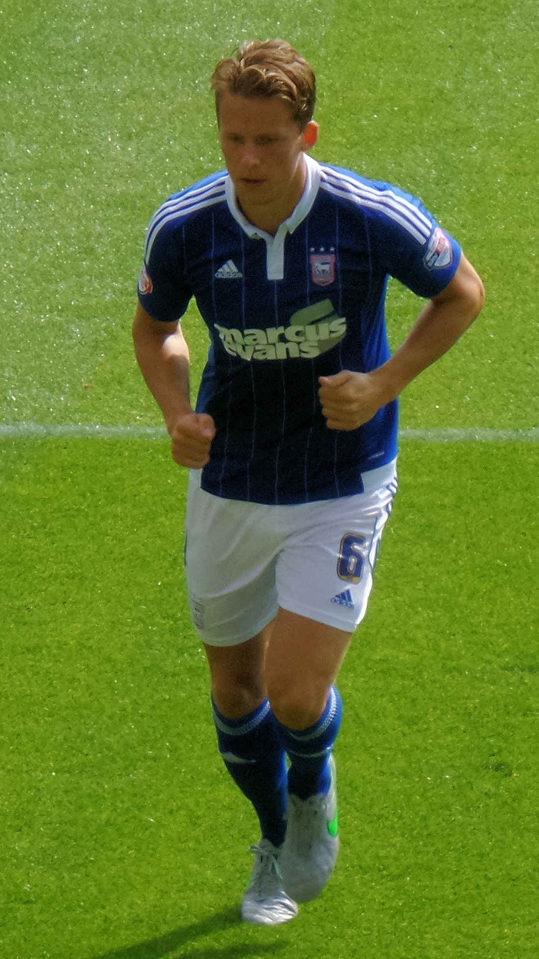 Christophe Berra playing for Ipswich Town at Preston North End on 22 August 2015